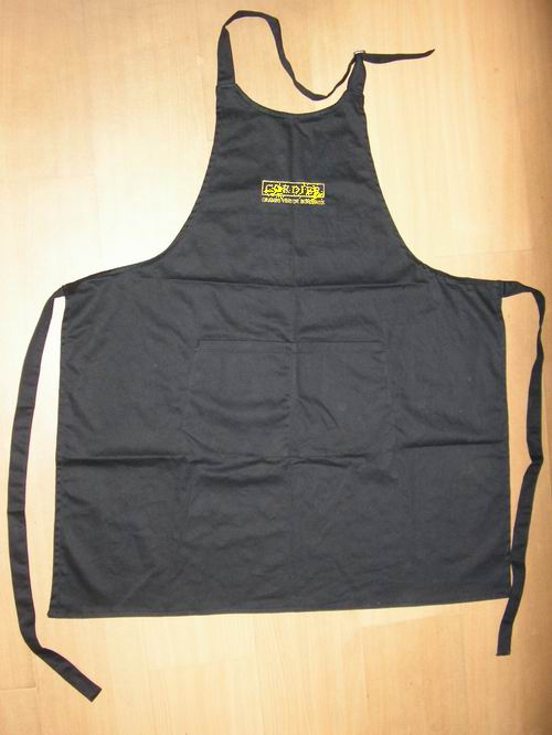 black kitchen style apron